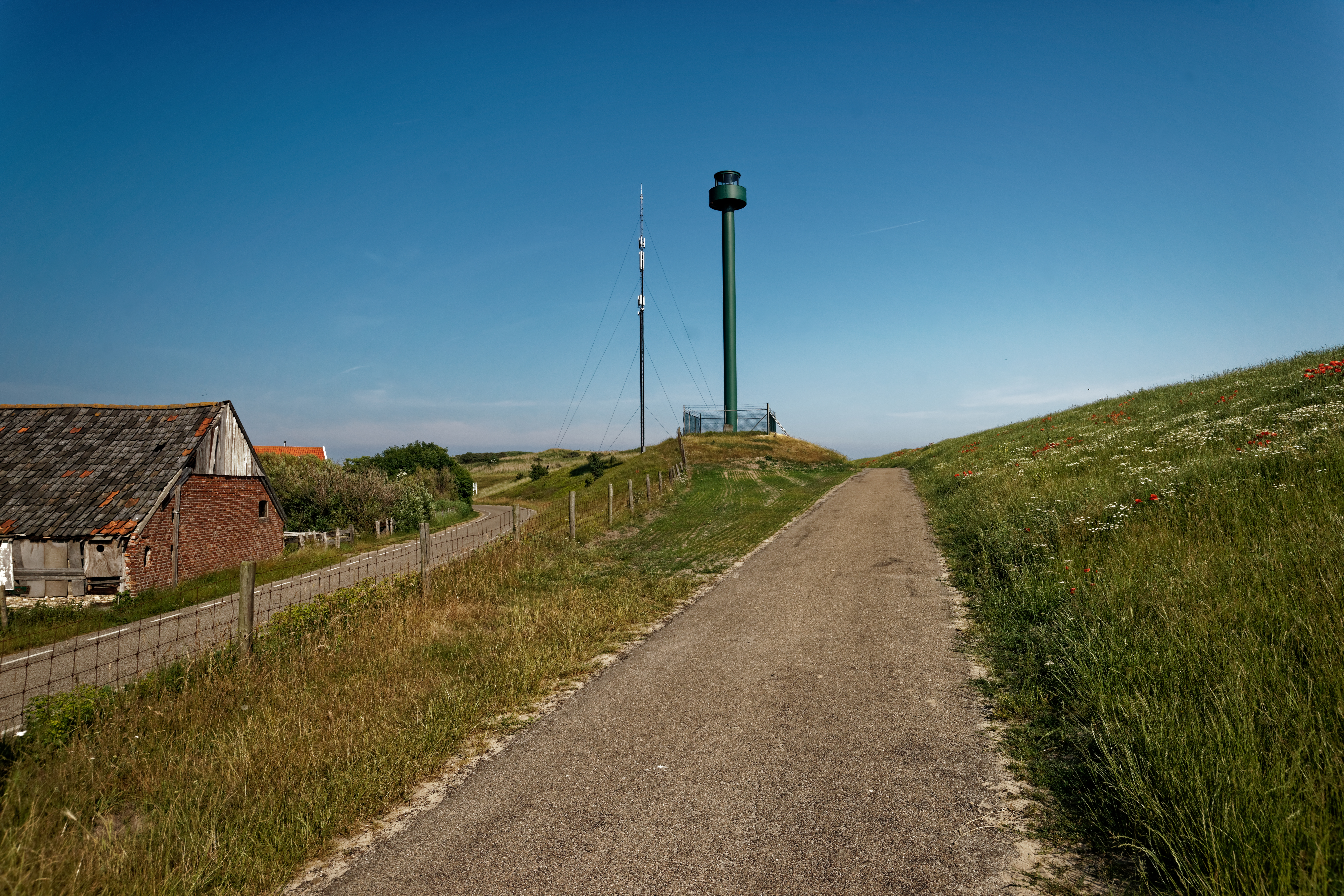 Texel - Molwerk - View ESE on Lighthouse 'Het Licht van Troost'